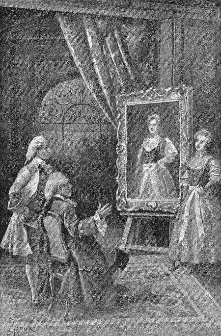 An illustration from Jules Verne's novel "The Secret of William Storitz" (written in 1898, firts published in 1910 after his death with changes made by his son Michel) drawn by George Roux.